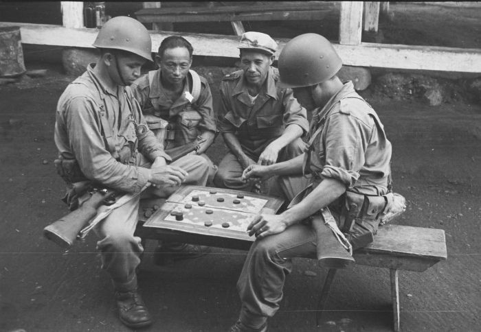 Troops of the reserve corps, north-east Celebes.